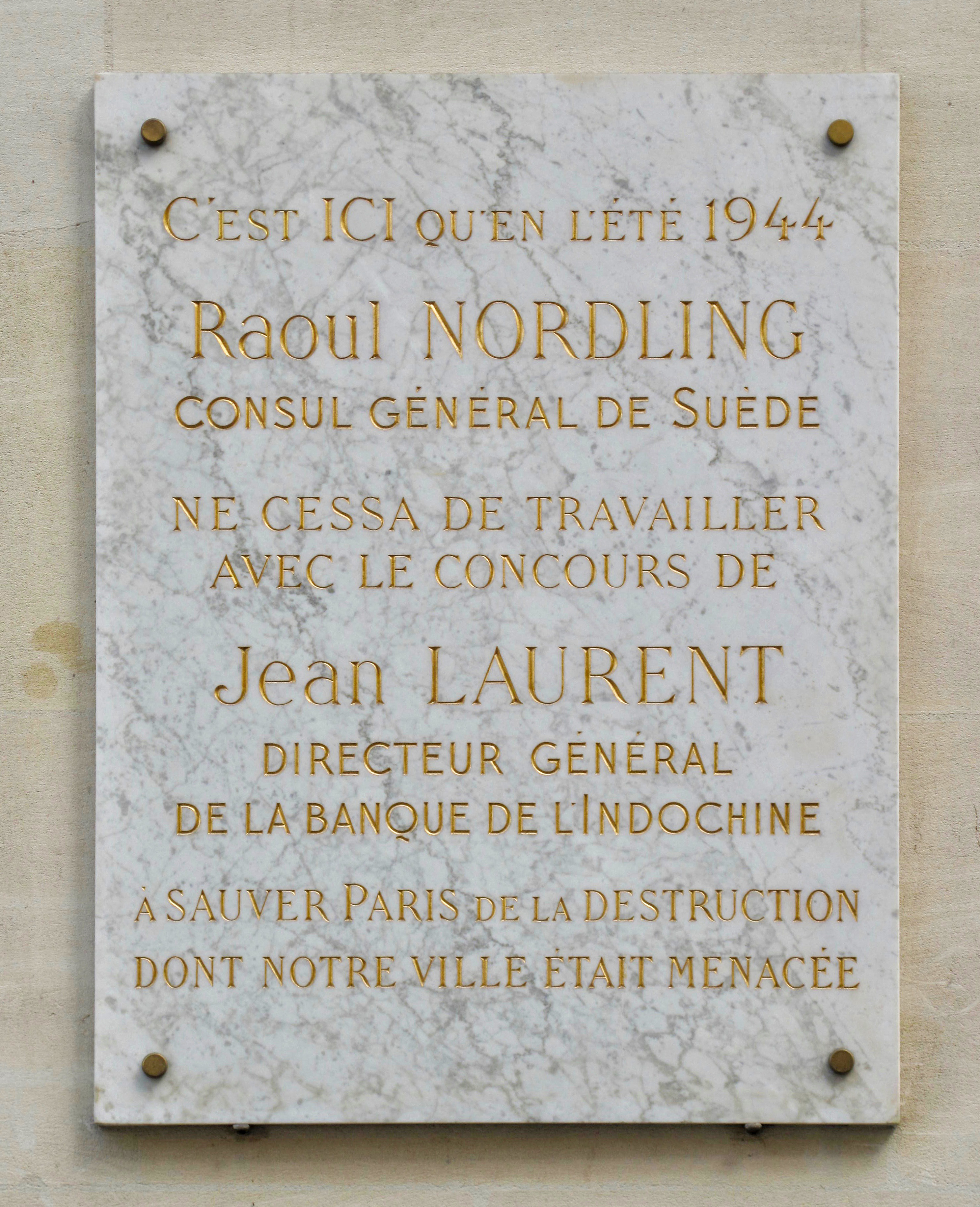 Commemorative plaque in honour of Raoul Nordling, consul of Sweden, for the liberation of Paris ; 78, rue d'Anjou, Paris 8th arr.